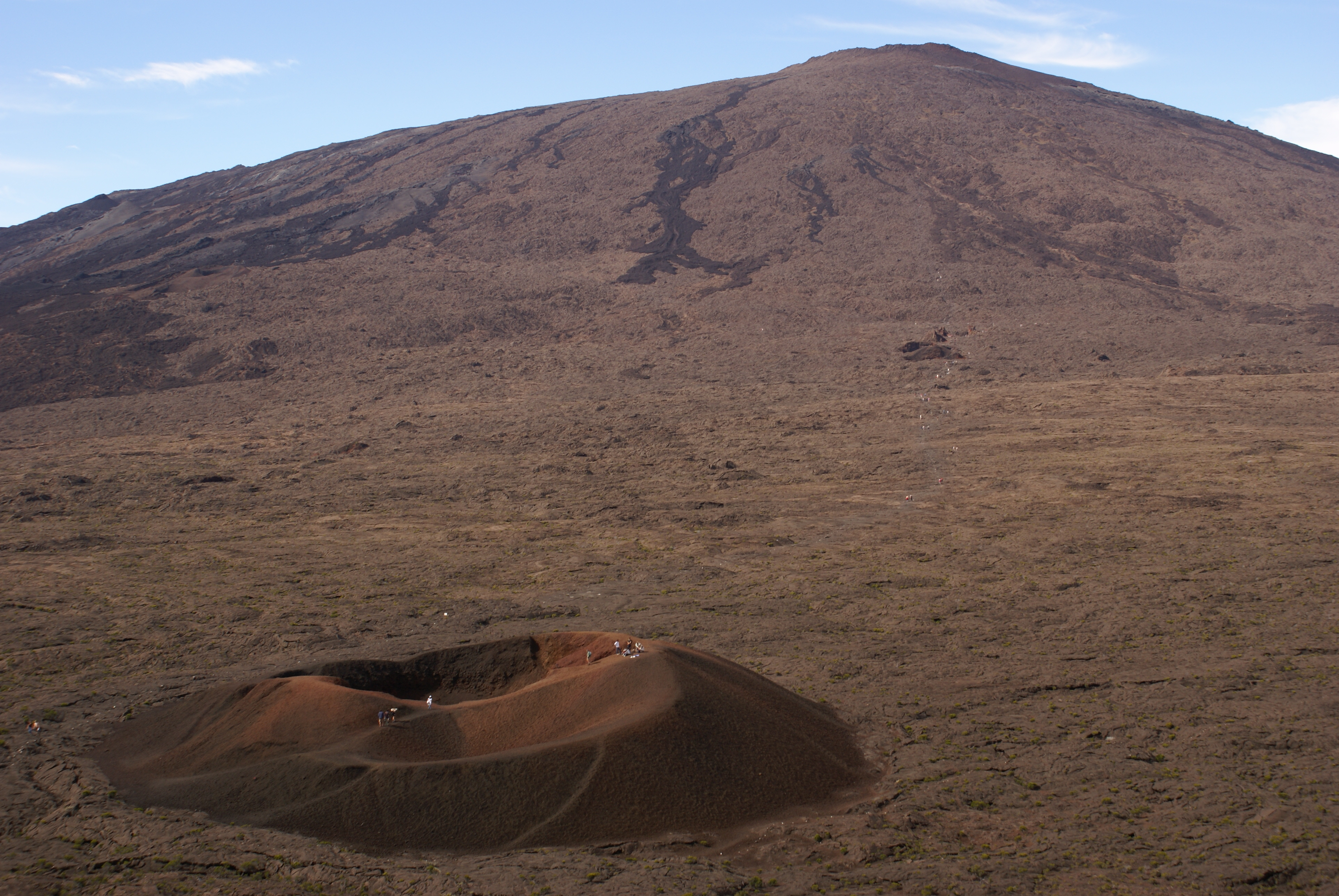 Formica Leo a strombolian cone adventive to the Piton de la Fournaise volcano on Réunion island